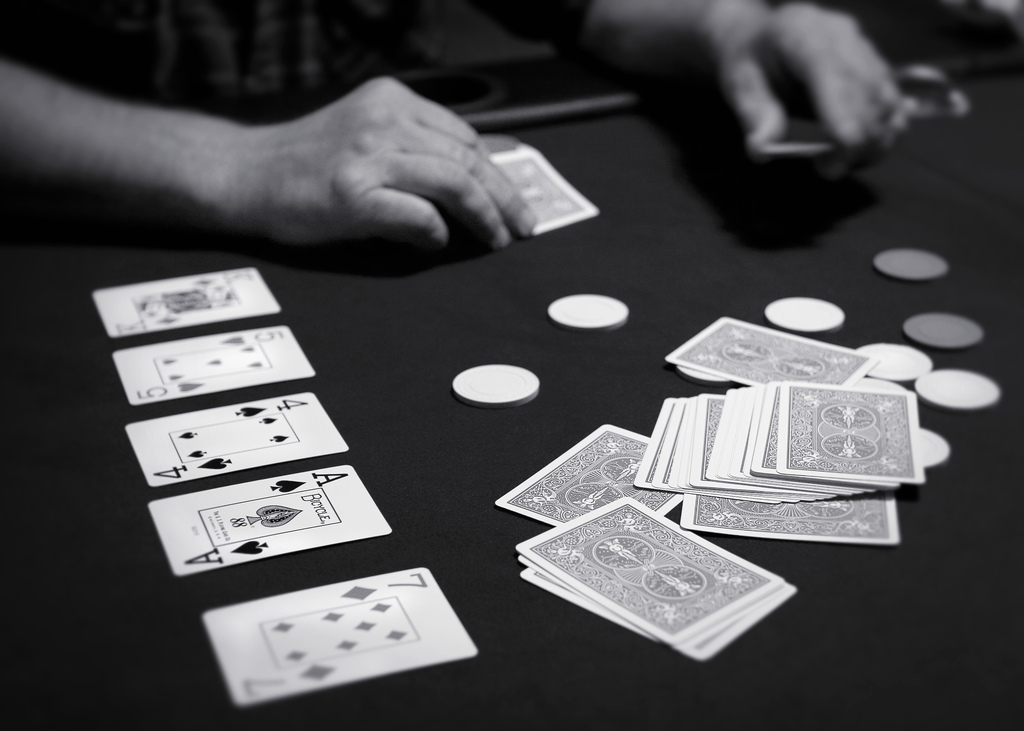 An image of a person playing the poker variant, Texas Hold'em